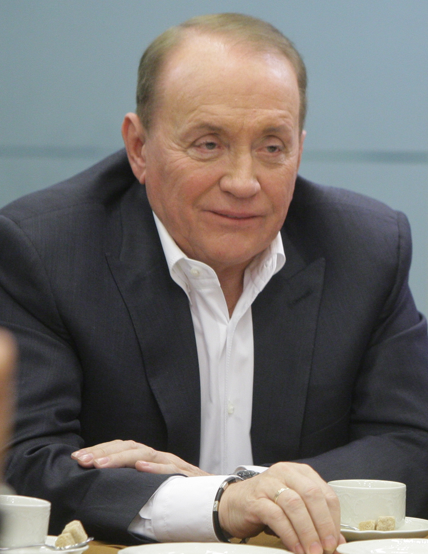 Alexander Maslyakov at a meeting with Prime Minister Vladimir Putin at the Ostankino TV station.